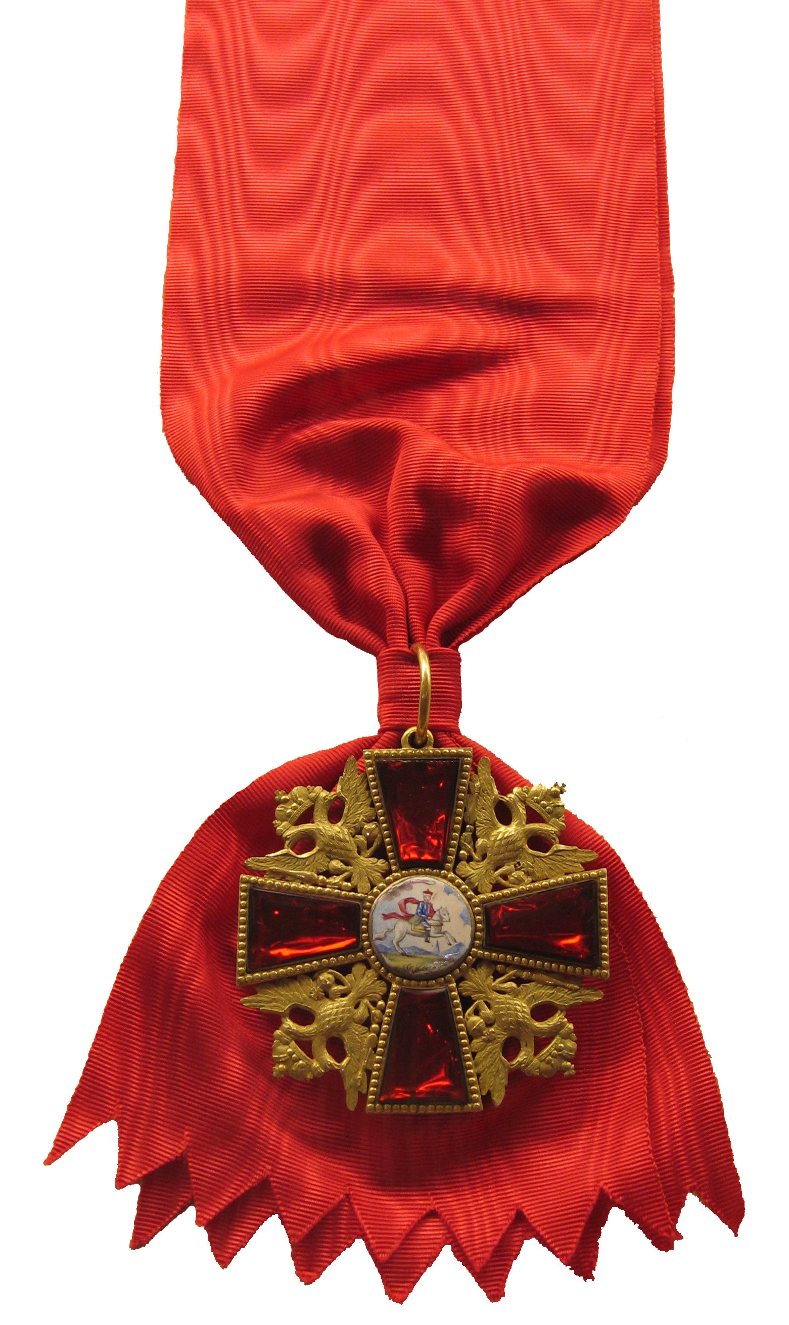 Insignia of Order of Saint Alexander Nevsky, Russia (Imperial).